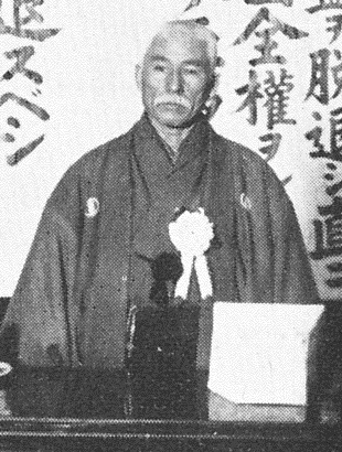 Ryohei Uchida Close-up